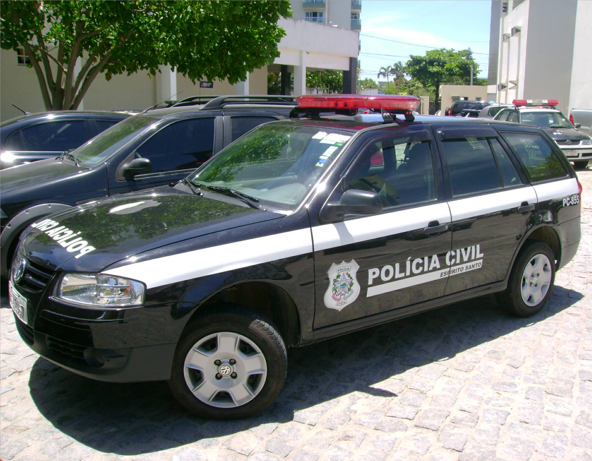 Police car of Espirito Santo Civil Police - Brazil